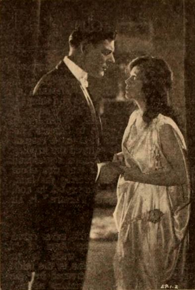 Still from the American film serial The Branded Four (1920) with Ben F. Wilson and Neva Gerber, apparently from Episode 1, on page 77 of the August 28, 1920 Exhibitors Herald.